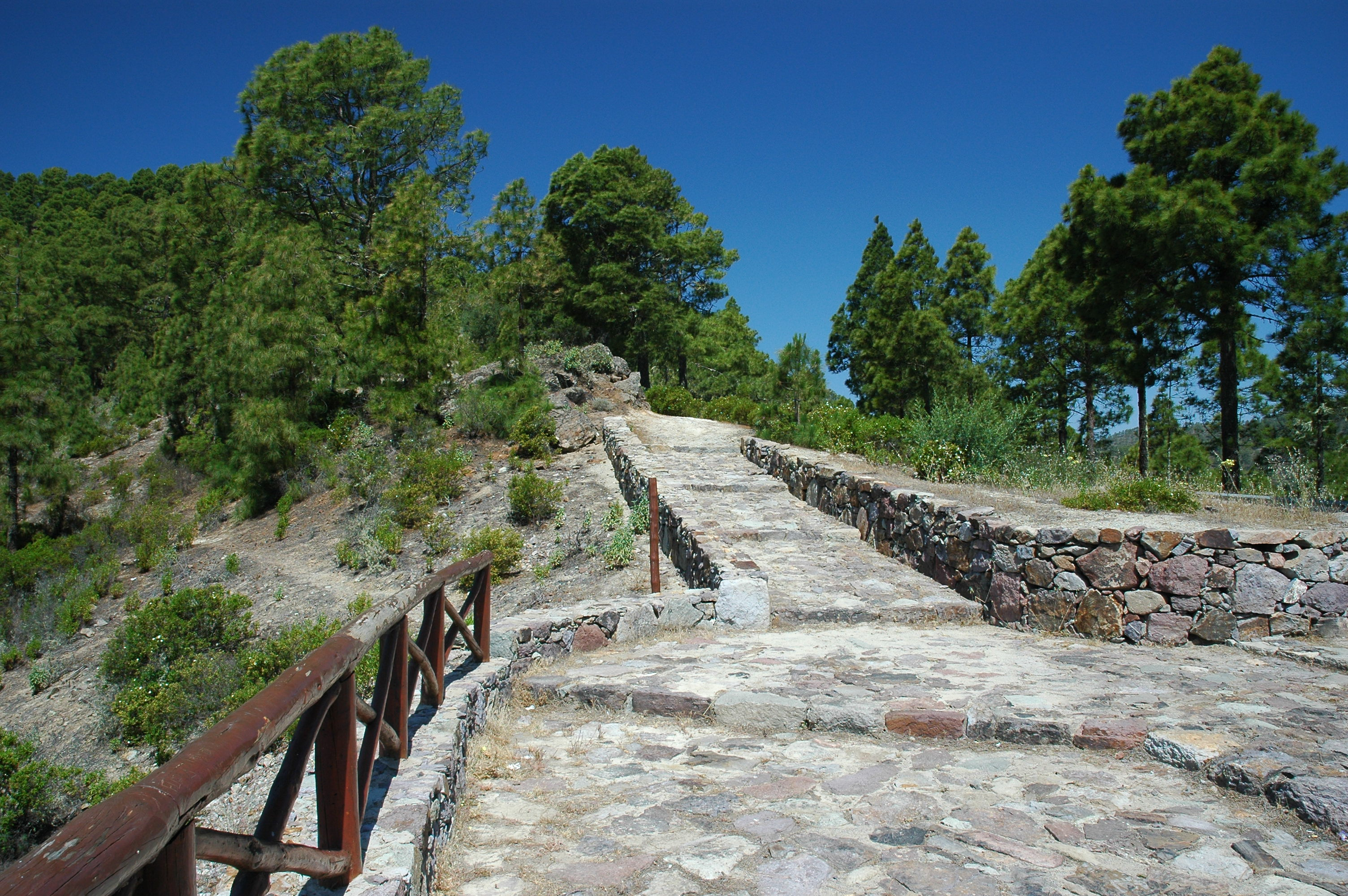 Beginning of 'Camino Real' (footpath): Cruz de María-las Lajas. Artenara (Gran Canaria) Canary Islands.